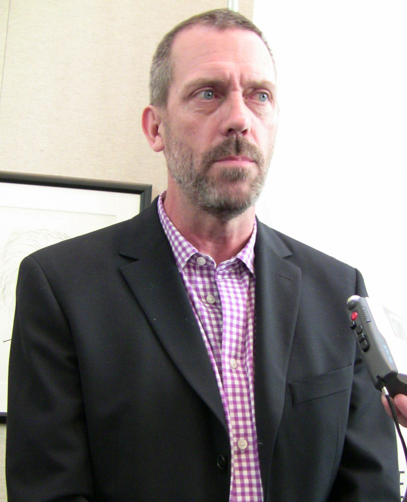 Hugh Laurie at TV series House event at Paley Center for Media, Beverly Hills, California.